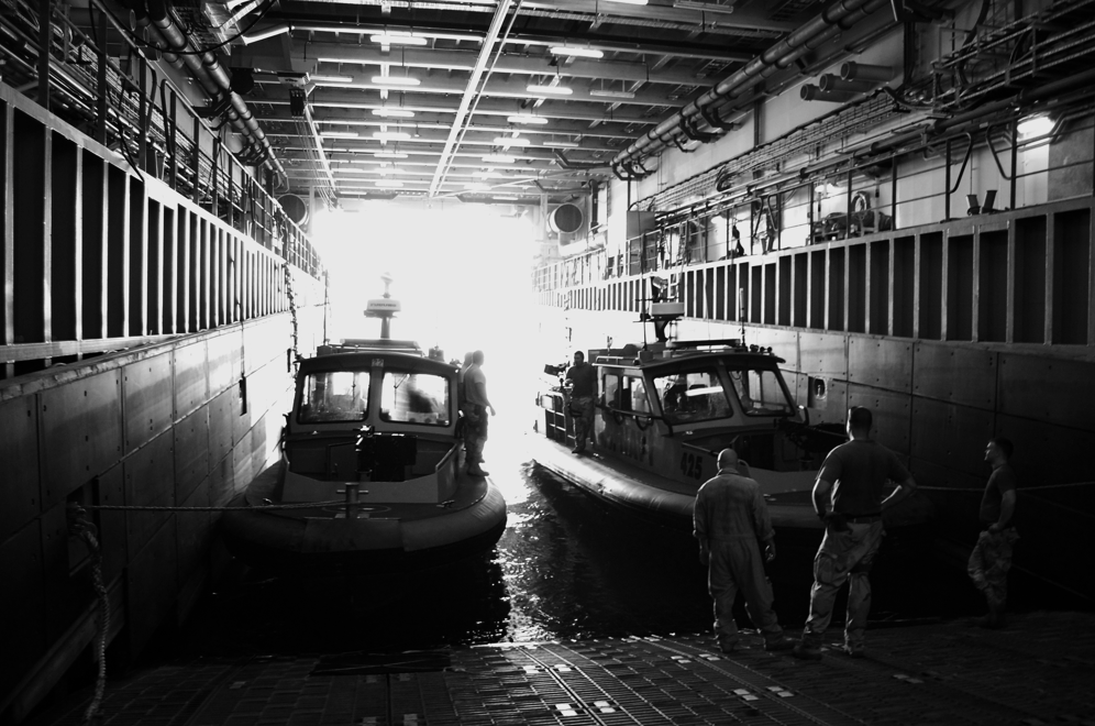 MESF boats docked on board another vessel in the NAG, 2009